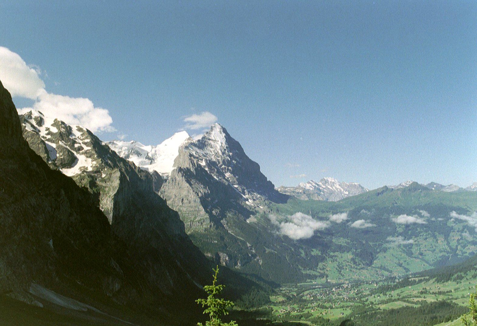 Eiger mountain with Grindelwald village, Switzerland; seen from Grosse Scheidegg.